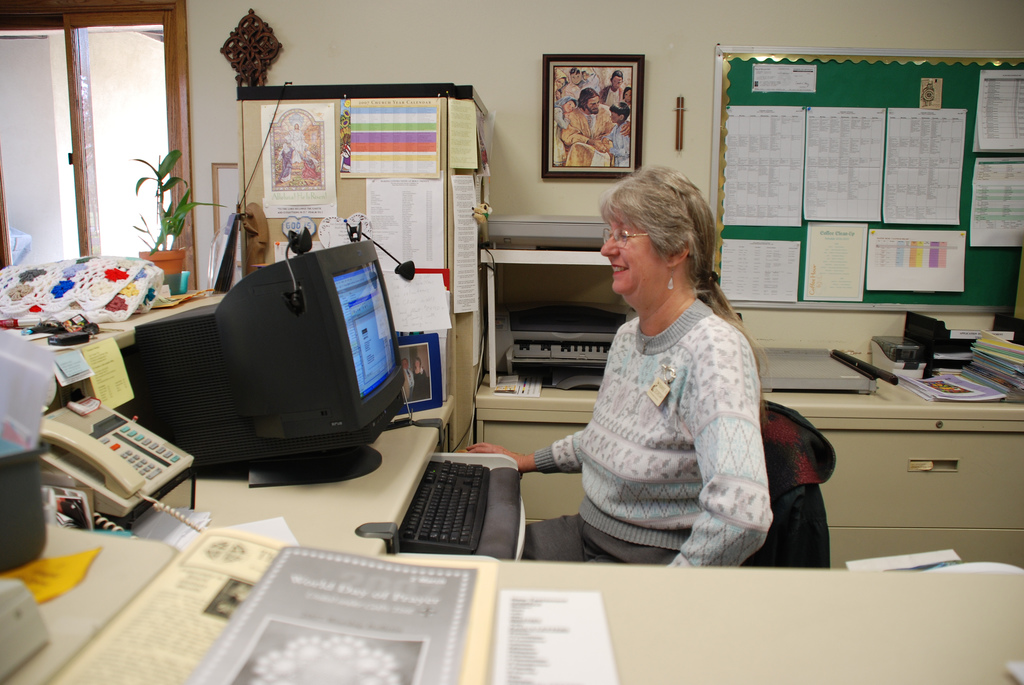 A secretary at work in California